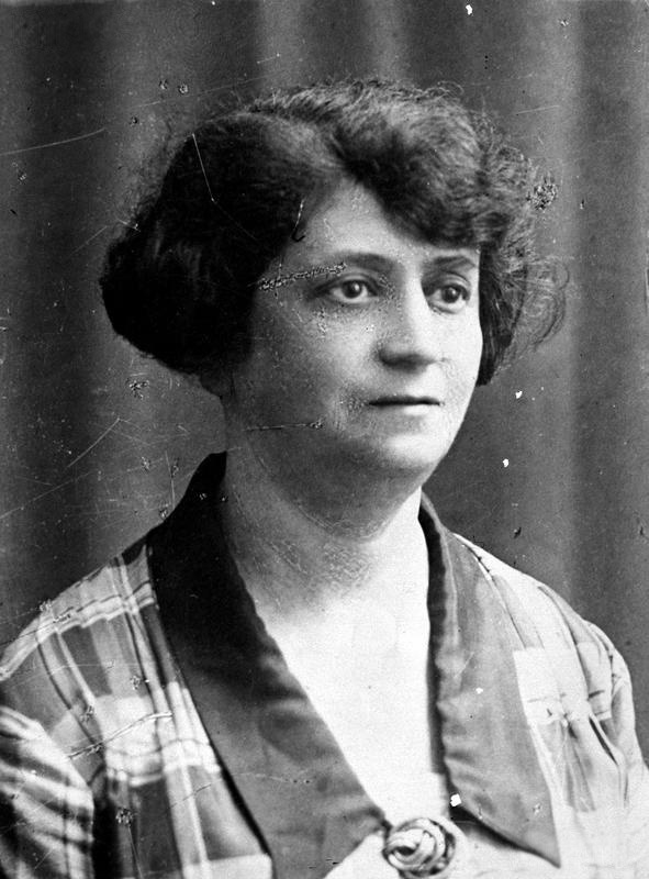 Dorota Kluszynska (1876-1952) polish politician